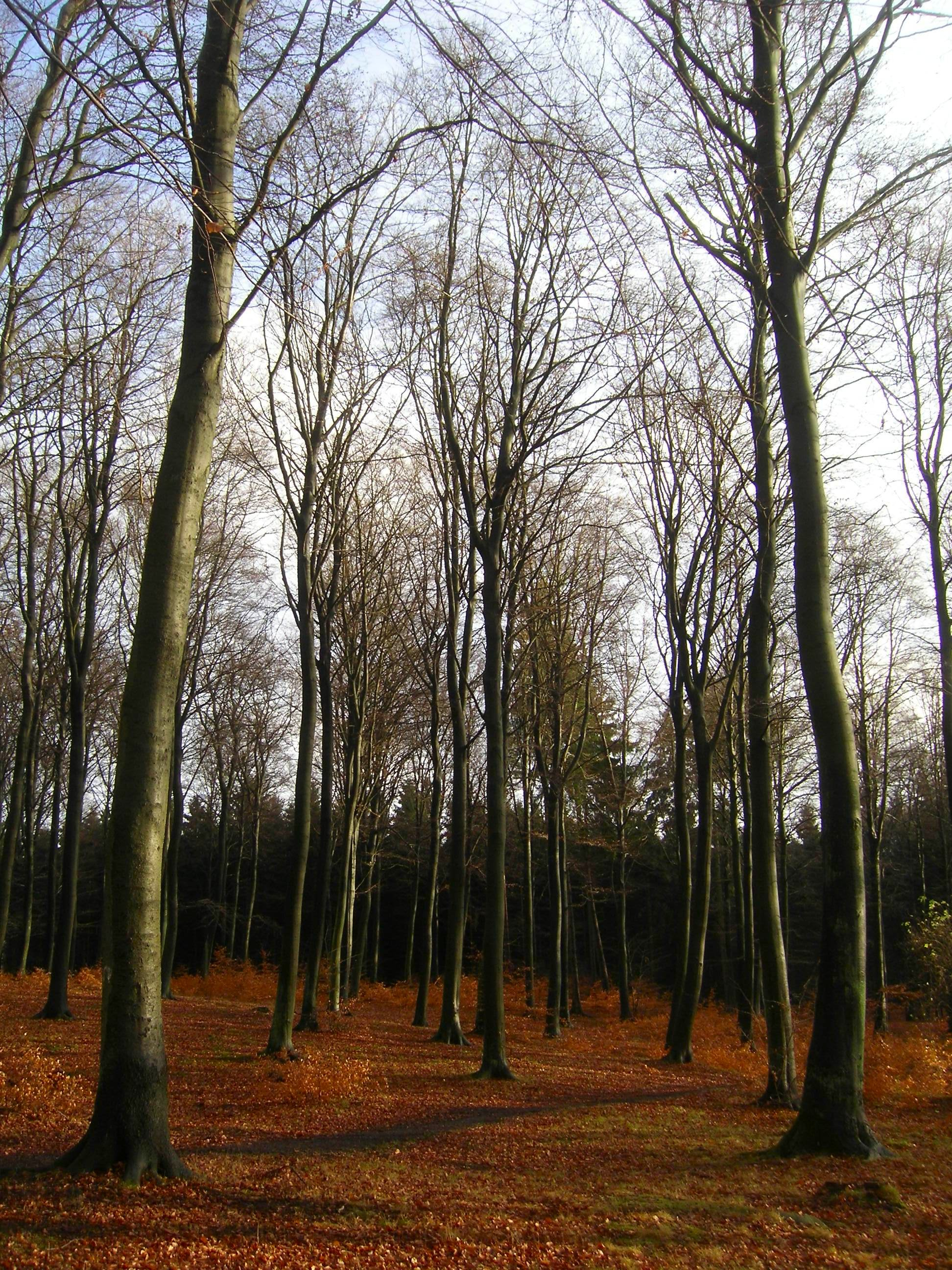 hareskoven autumn